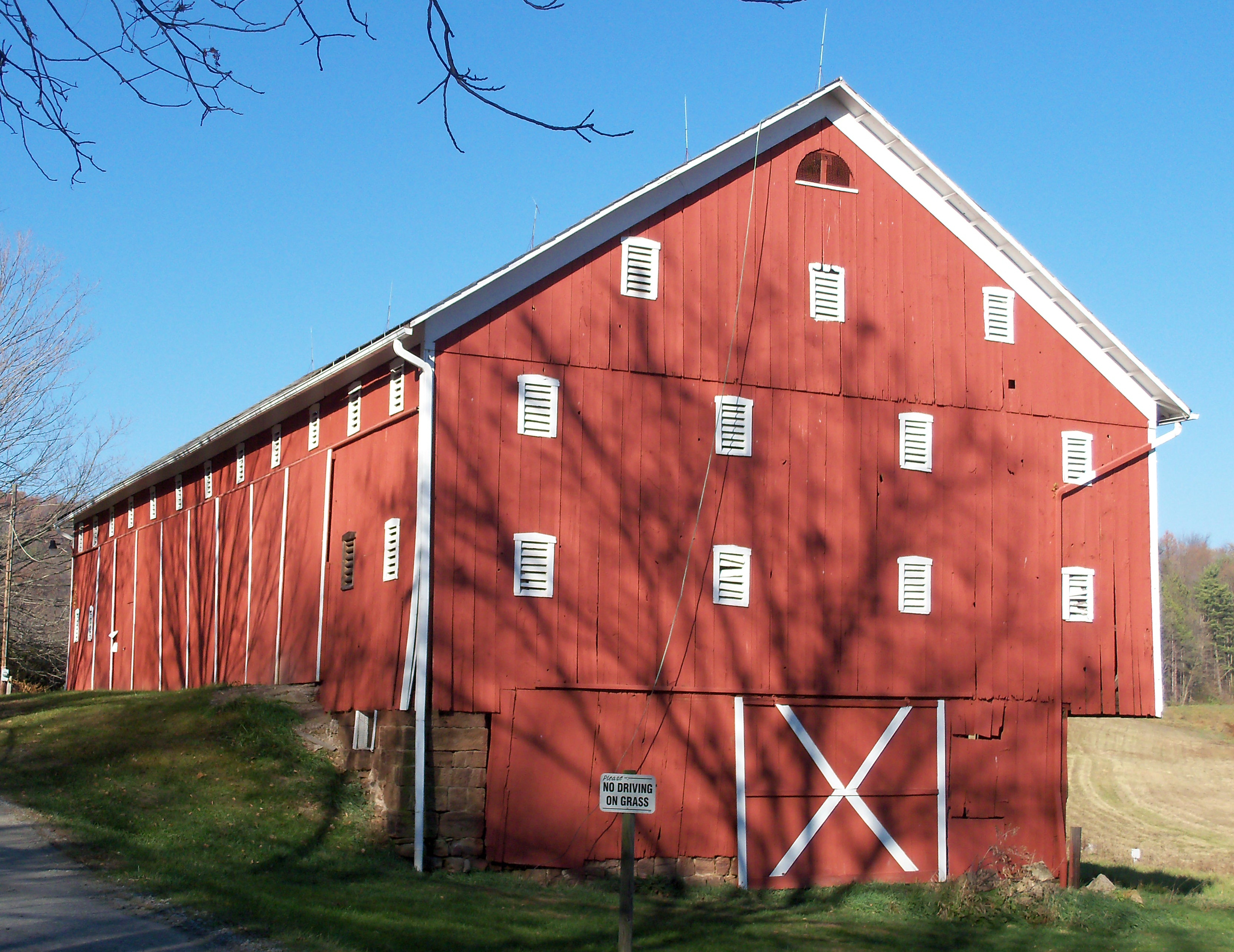 Christian Pershing Barn, a building on the National register of historic places in Dover Township, Ohio.